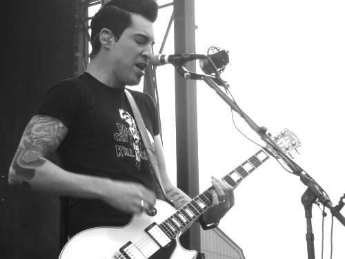 Tyler Connolly of Theory of a Deadman - Live in Concert